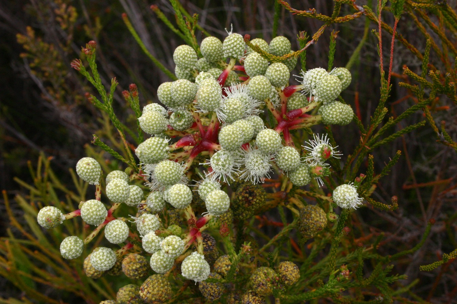 Brunia nodiflora L. (Bruniaceae), Nature's Valley, South Africa